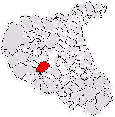 Limits of the Commune of Andreiasu de Jos